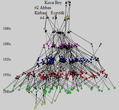 (Douglas R. White, own graphic, 3-D Graphic of Relinking Marriages among Nomad Kin, color-coded by generations Summary (Douglas R. White, own graphic, 3-D Graphic of Relinking Marriages among Nomad Kin, color-coded by generations